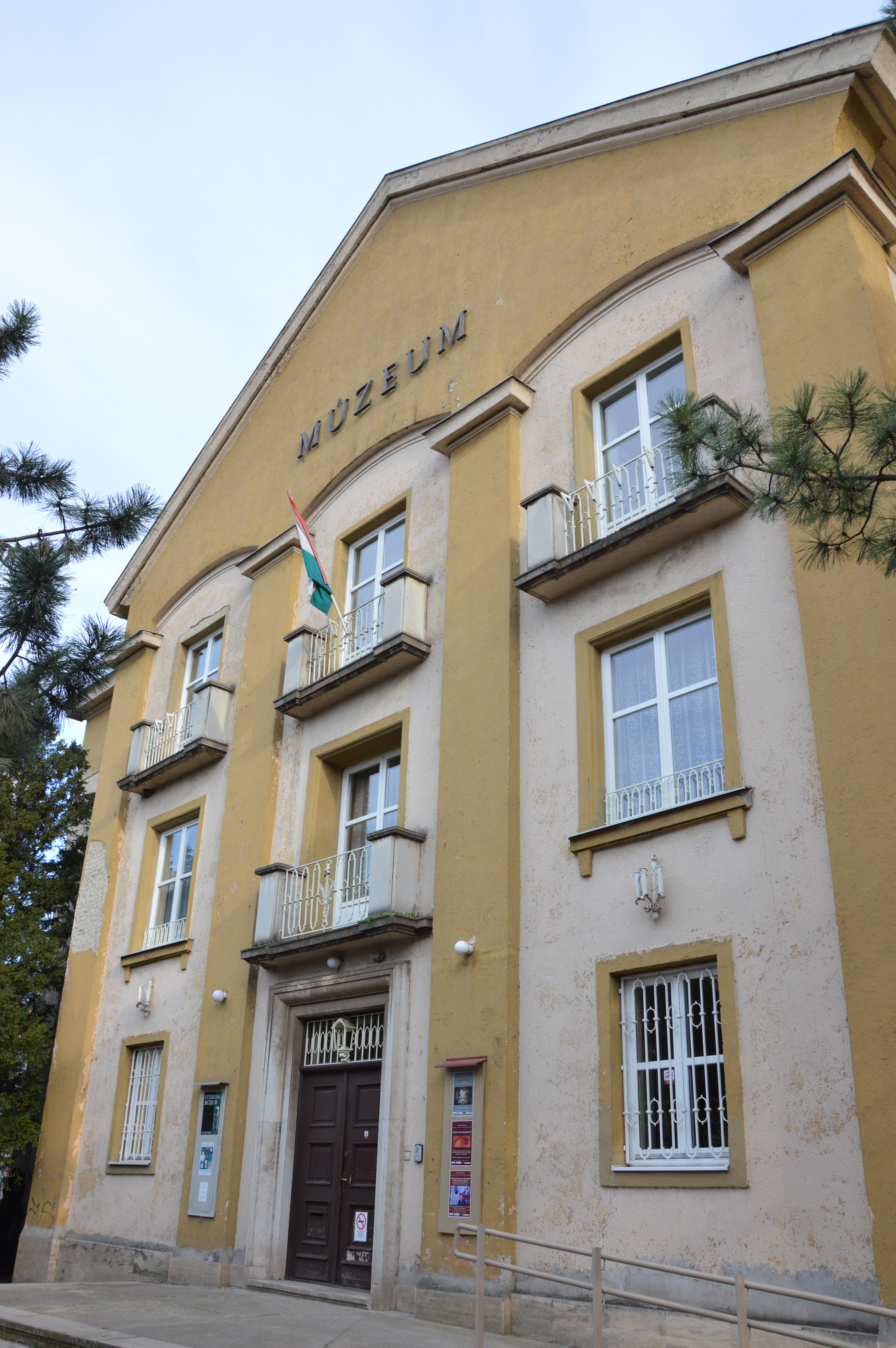 Városháza tér 4 (currently the Intercisa Muzeum, former communist party headquarters) in Dunaújváros, Hungary. Socialist-realist architecture. Built in 1951. Architects: Tibor Weiner (:hu) and Erika Malecz